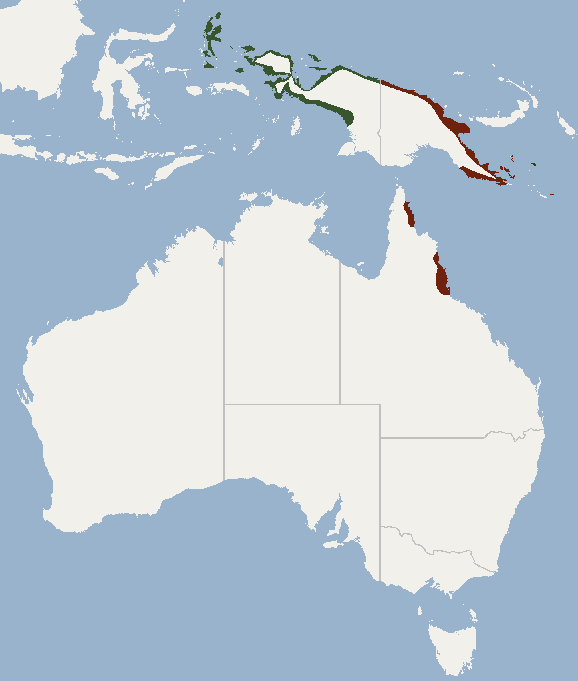 Geographical distribution of Pteropus conspicillatus according to museum Specimens P.c.chrysauchen P.c.conspicillatus